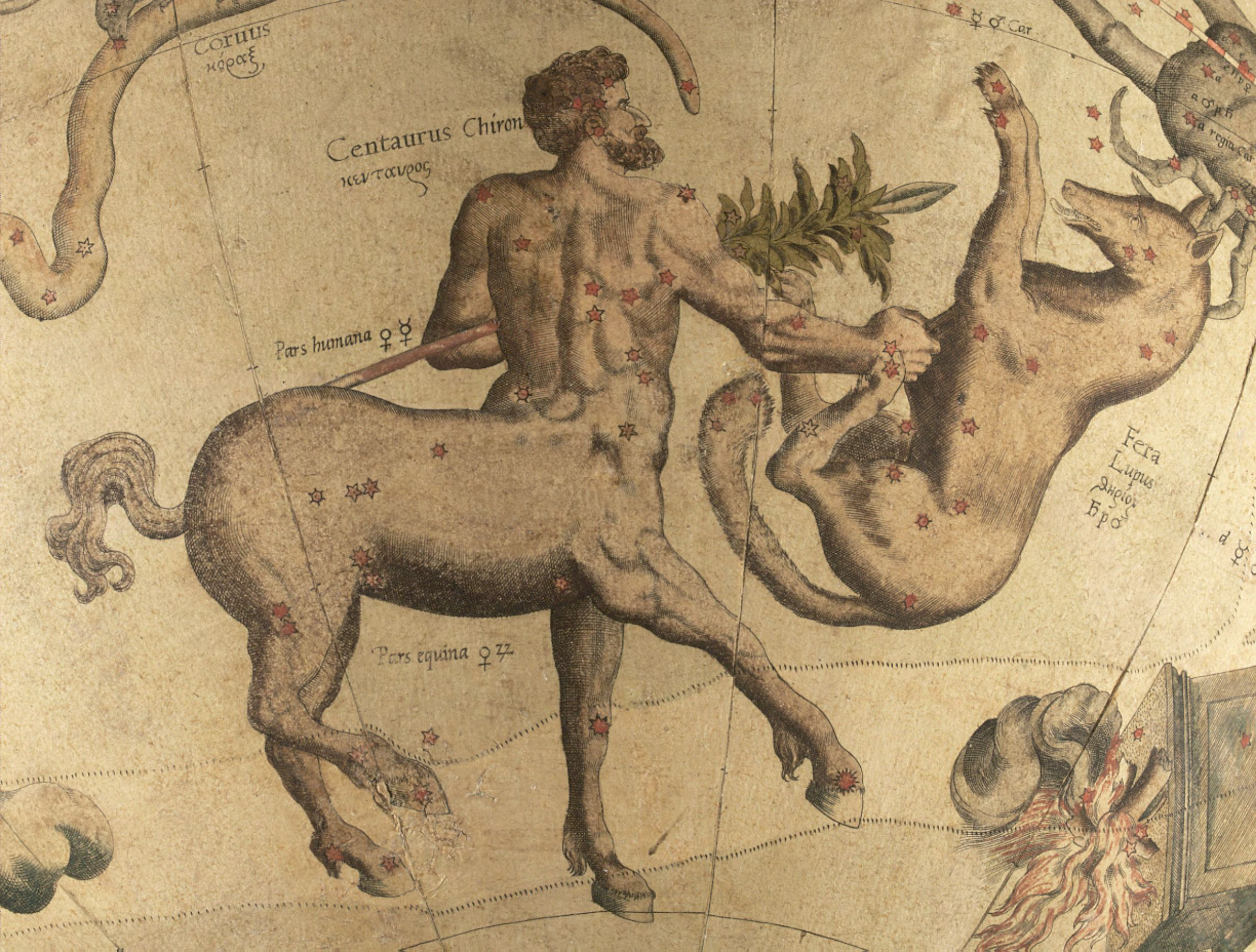 Centaurus and Lupus constellations from the Mercator celestial globe.